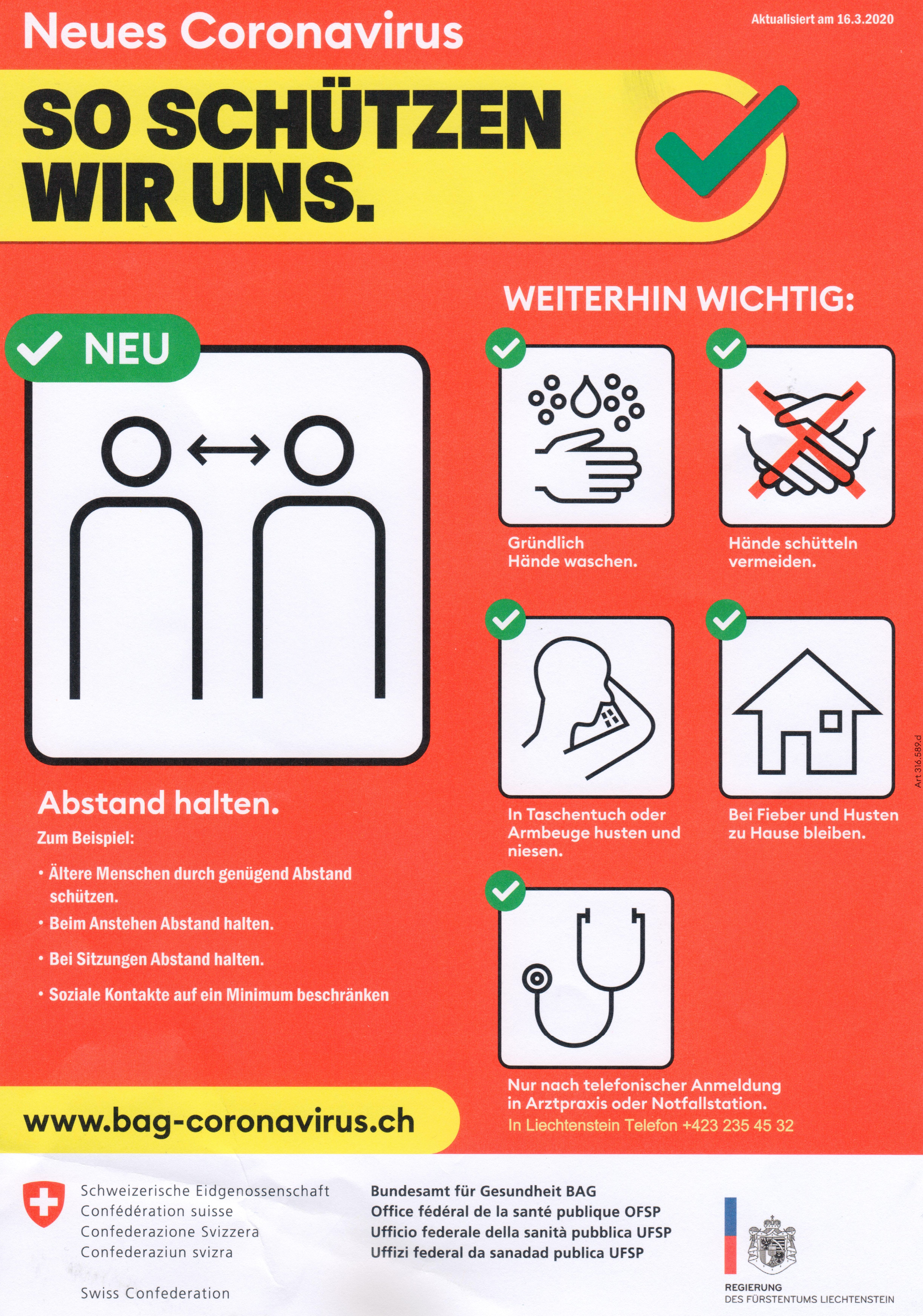 Poster "New coronavirus: protect yourself and others" from the Federal Office of Public Health (version of 5 March 2020, in German).